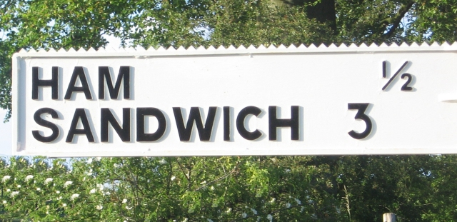 Ham Sandwich finger post Finger post with the village of Ham and town of Sandwich, amuses the visitors.